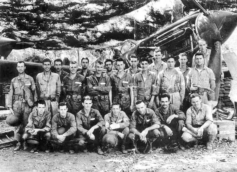 20th Pursuit Squadron Curtiss P-40E Warhawk Bataan Airfield Philippines 1942